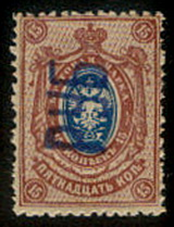 Provisional stamp of Kharkov, an overprint on a stamp of Russian empire 17 releases, 1920